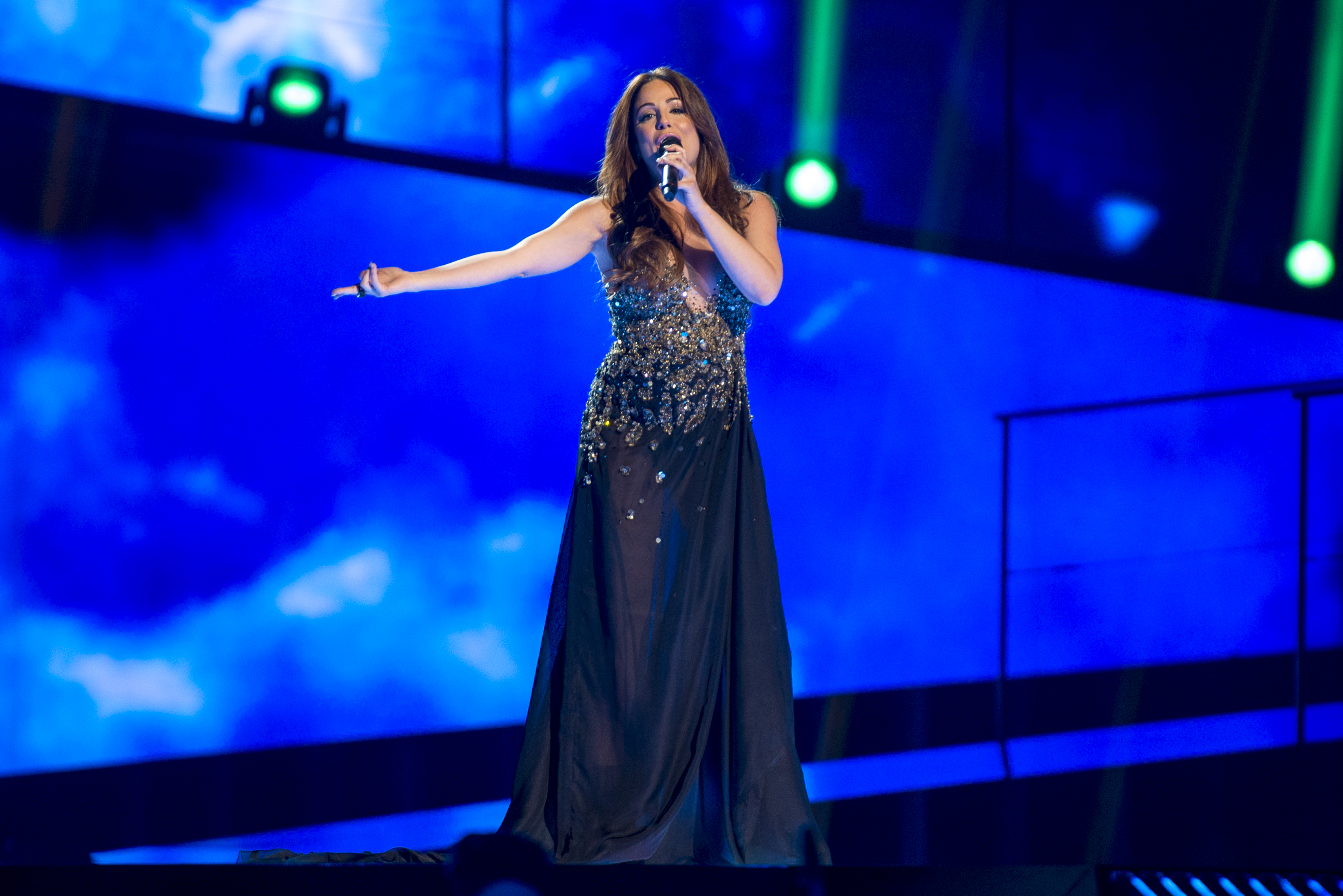 Ira Losco representing Malta with the song "Walk on Water" during a rehearsal before the first semi final of the Eurovision Song Contest 2016 in Stockholm. (Help translate this text)